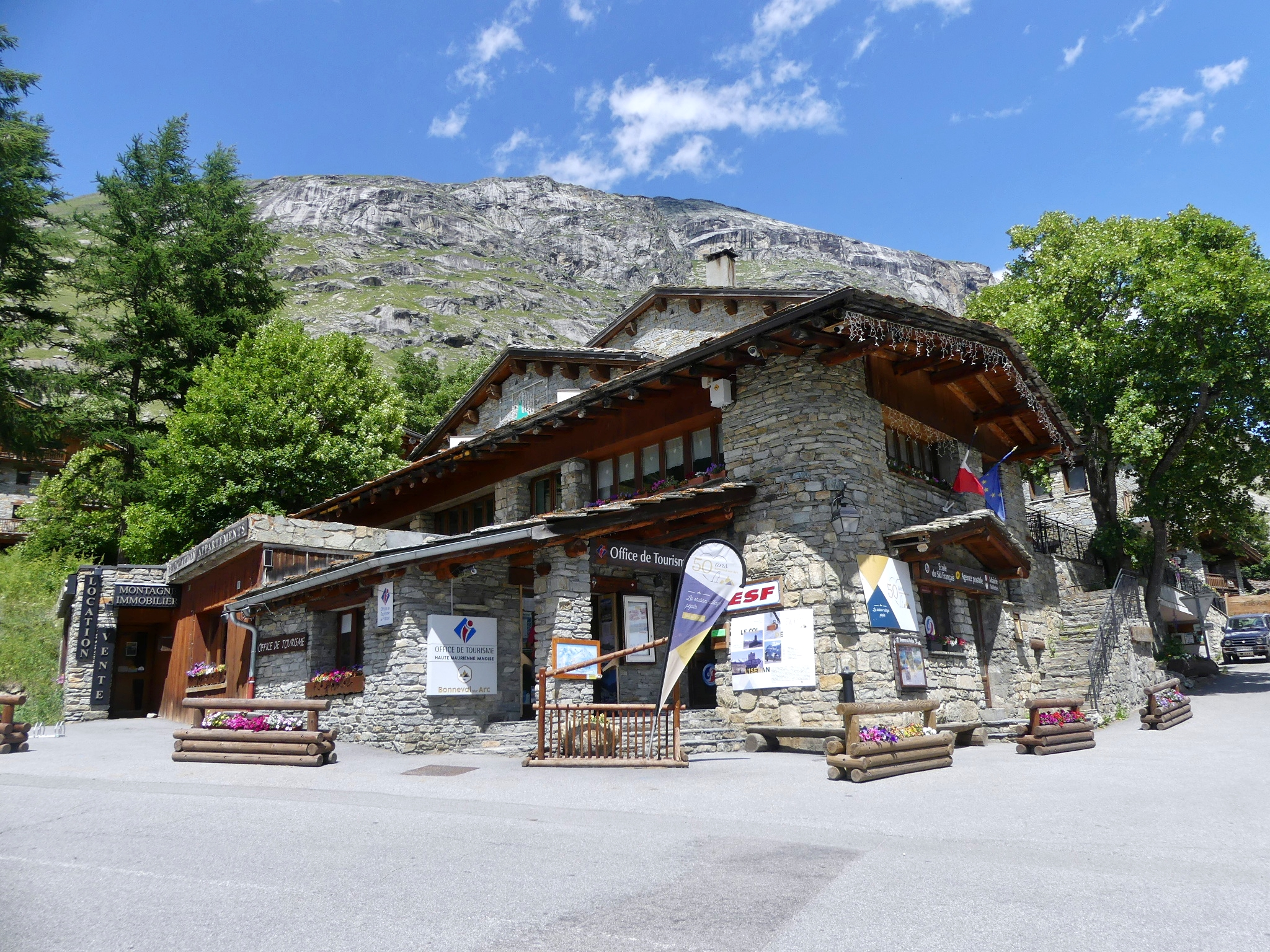 Sight of the town hall and tourist office of Bonneval-sur-Arc, last village of the high Maurienne valley, Savoie, France.